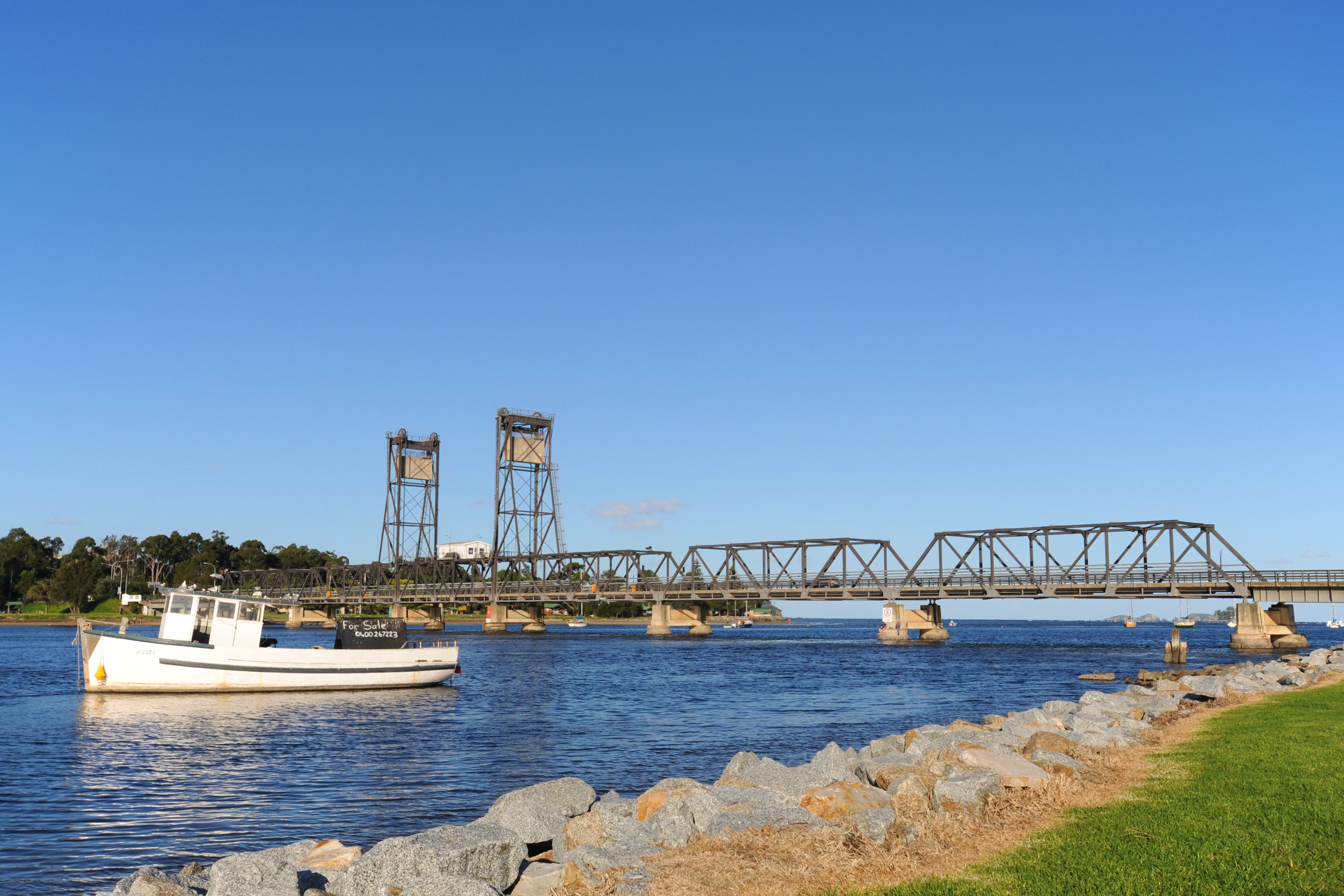 The Princes Highway bridge over the Clyde River at Batemans Bay.